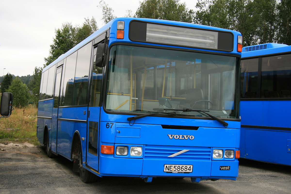 1993 Volvo B6LE / Vest Liner 310 Midi.